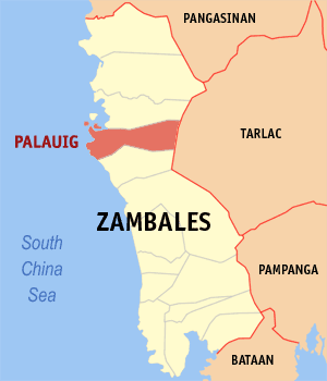 Map of Zambales showing the location of Palauig